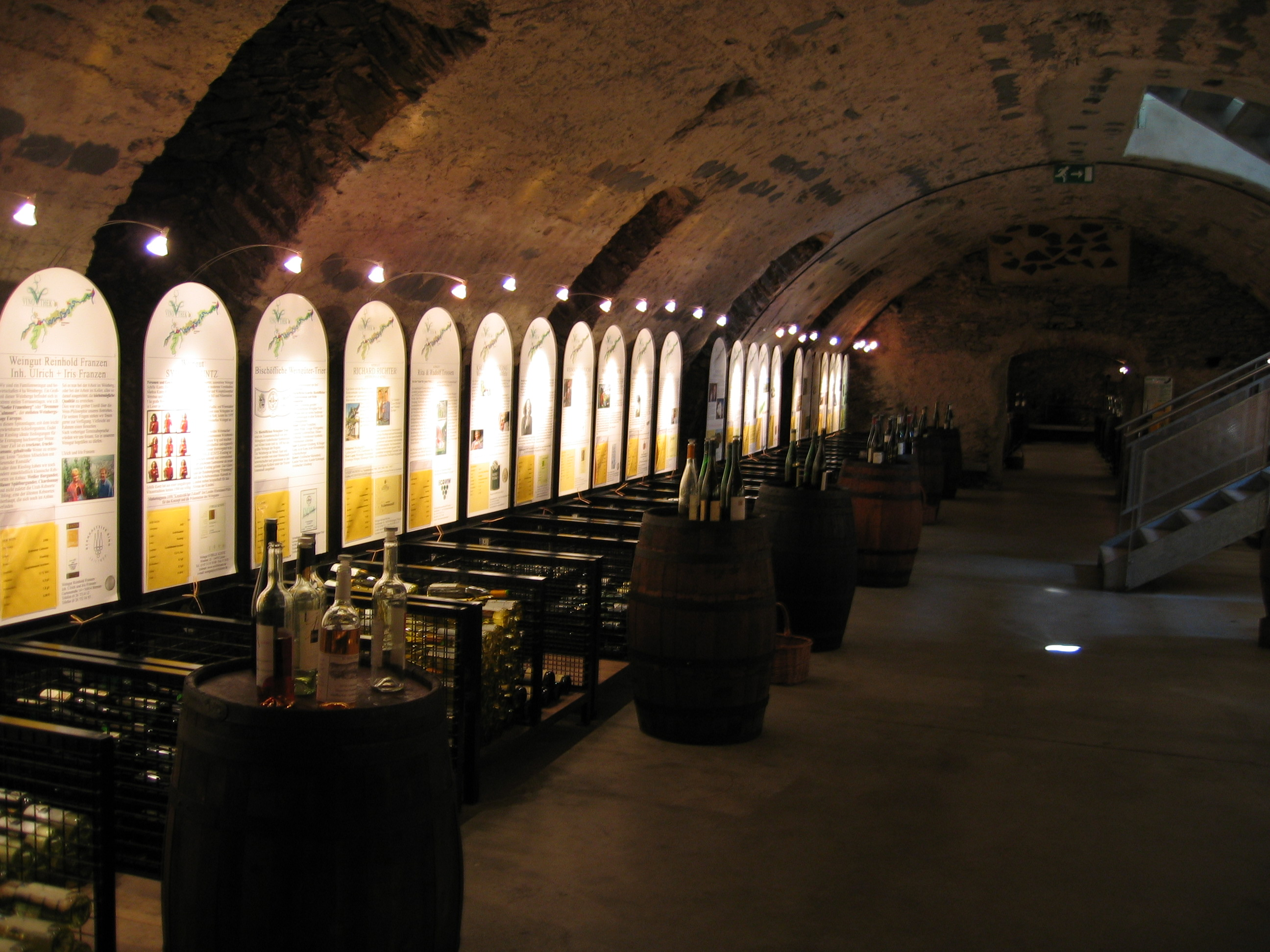 Vinothek Bernkastel in the Mosel wine region of Germany. View of the cellar where wines are displayed for tasting.